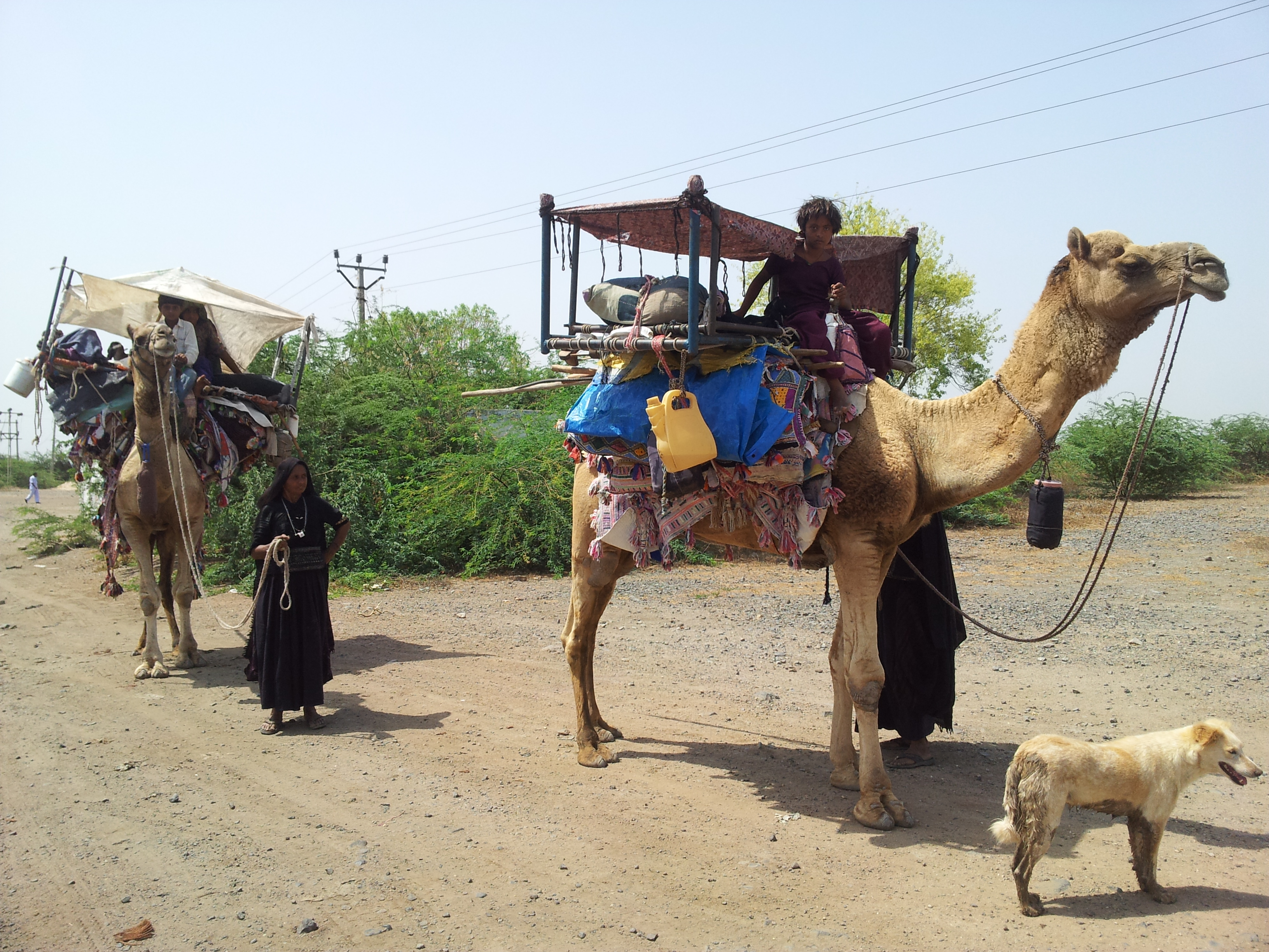 caravan near mundra kutch,gujarat,India